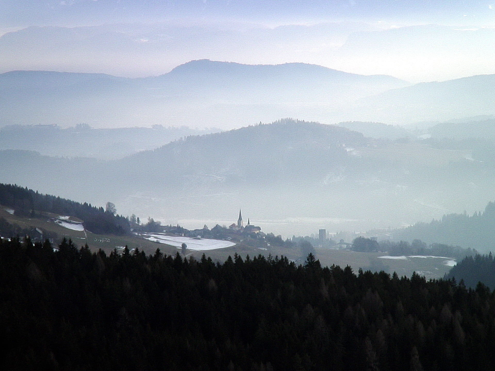 View from the "Schneebauer" at the village Soerg and part of the middle Carinthian hill landscape (from the north west to the south east), municipality Liebenfels, district St. Veit an der Glan, Carinthia, Austria